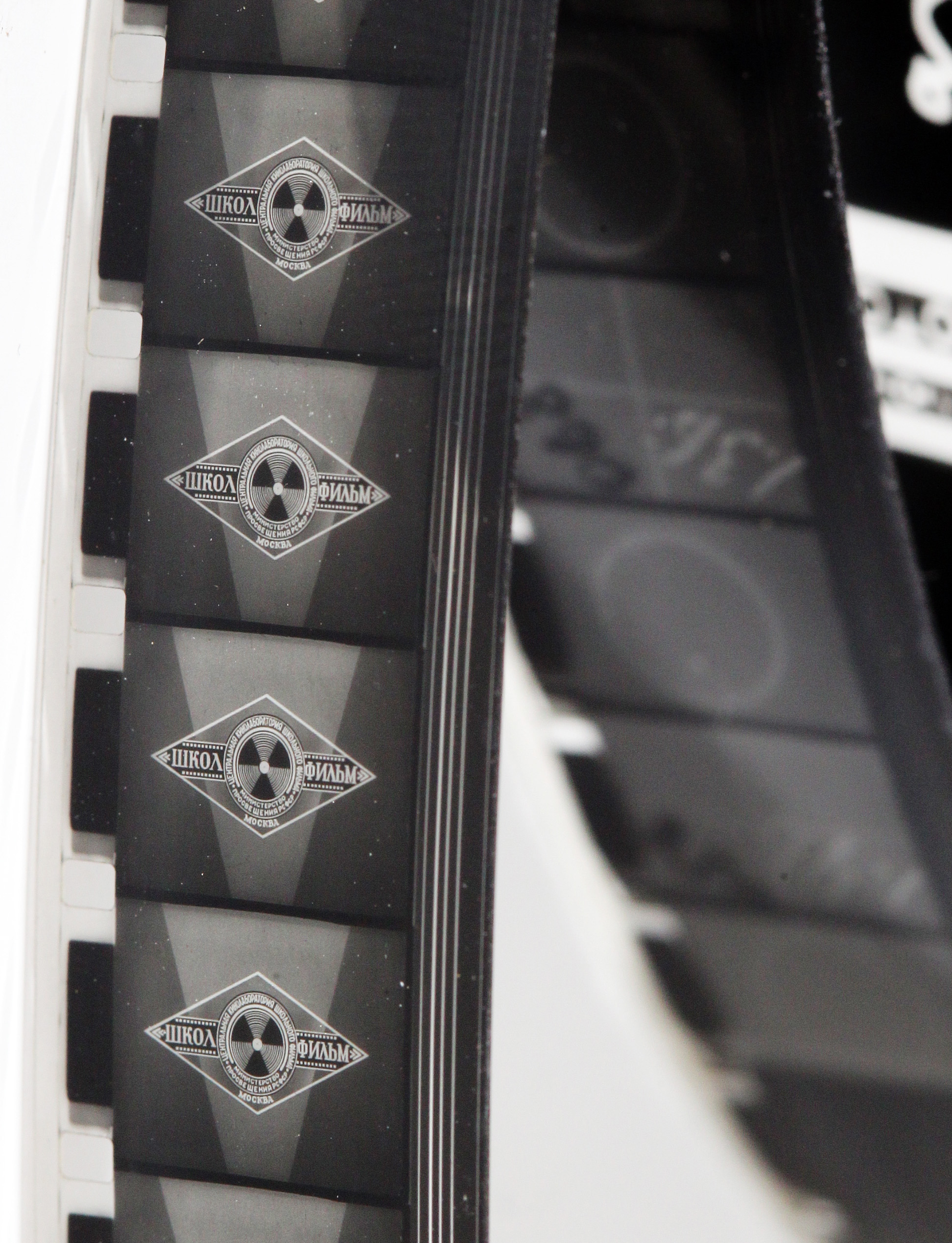 Title of 'Shkolfilm' (School movies) Soviet motion picture studio at 16-mm black&white sound film copy.